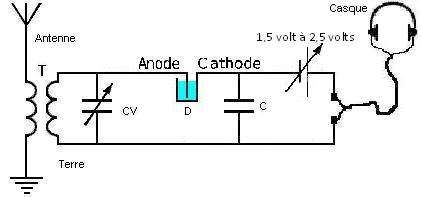 Circuit of an early radio receiver with electrolytic detector, from the very start of the 20th century. A battery and potentiometer apply a small bias voltage to the electrolytic detector. The electrolytic polarization of the anode is very fast. The anode is a very fine platinum wire 1/100 of millimetre in diameter, while the cathode is a lead or platinum plate or large wire. The alternating signal from the tuned circuit partially depolarizes the anode in response to the amplitude modulation, which draws a DC current from the battery which varies with the modulation, to repolarise the anode. This current passes through the earphone, which converts the audio current to sound. The electrolytic detector functions with a bias voltage of between 1.5 and 2.5 volts. To adjust it, the bias voltage is first adjustad to maximum, 2.5 volts. As soon as water bubbles indicate that electrolysis is occurring, and a noise is heard in the earphone, the bias voltage is slowly turned down until the noise completely disappears. Then the antenna is connected. The detector must be readjusted in the event of a change of temperature, barometric pressure, vibration, or shock. The electrolytic detector has a sensitivity of 7 nanowatts. It is unstable when subjected to movement or vibration, so it is only usable in fixed stations, not in portable or mobile radios, ships, aircraft, or airships. It was only used in early receivers for a short time due to its complexity of maintenance.